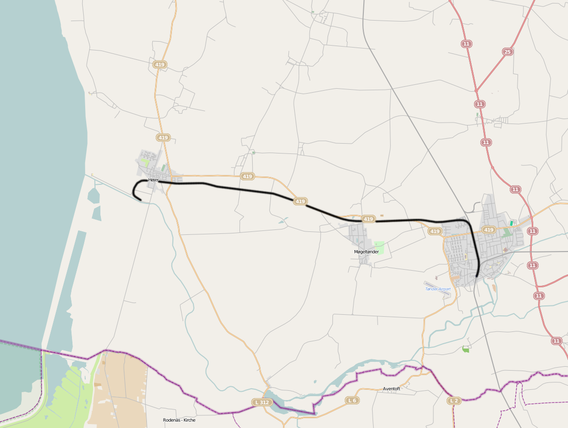 Railway line Tønder - Højer Sluse